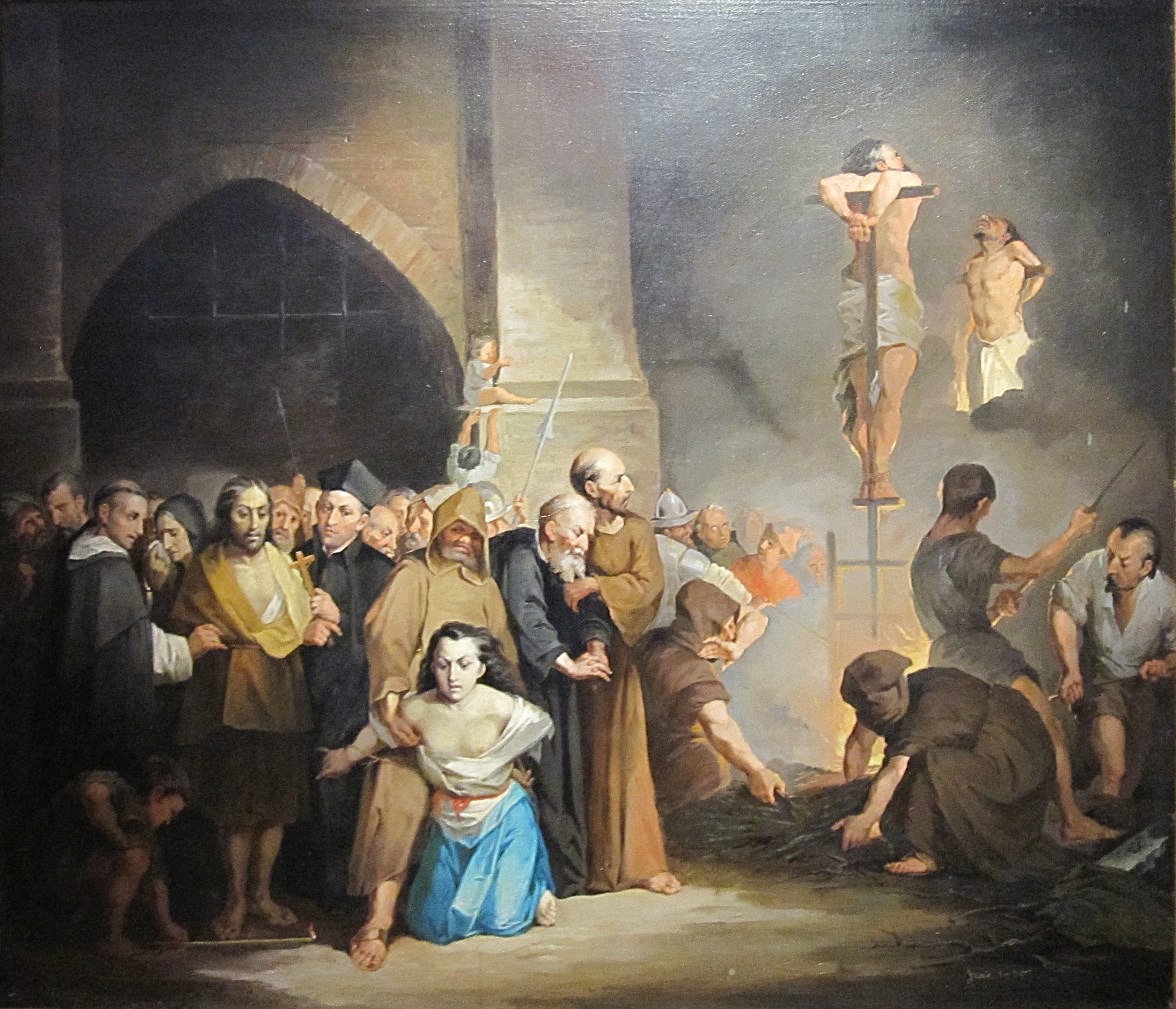 The Inquisition